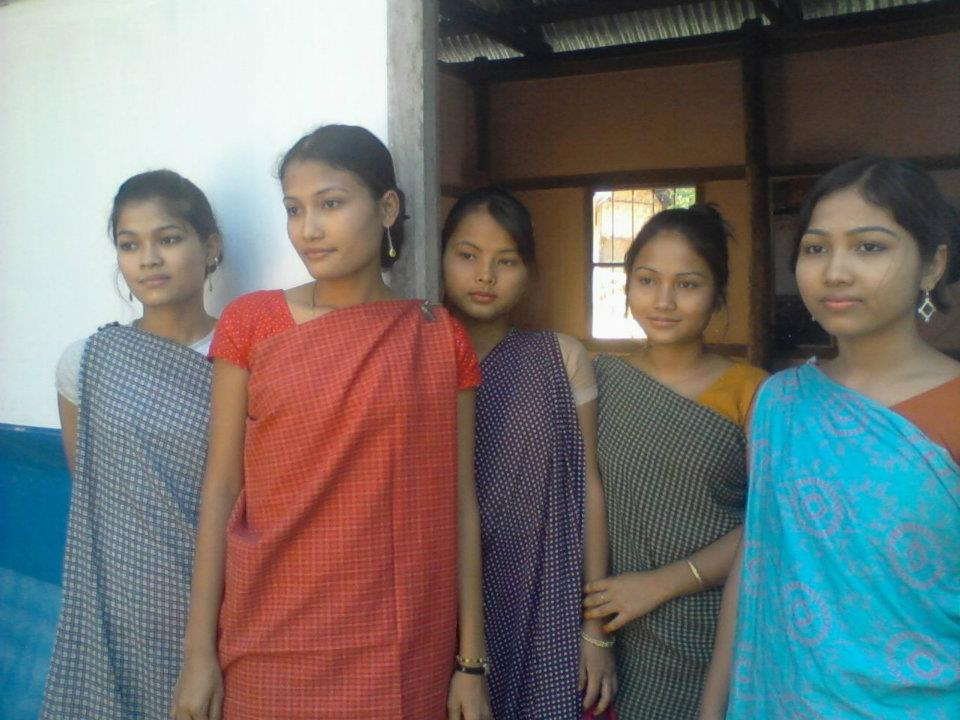 Khasia Women, Srimongol, Moulvibazar, Bangladesh